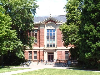 Kidder Hall at Oregon State University